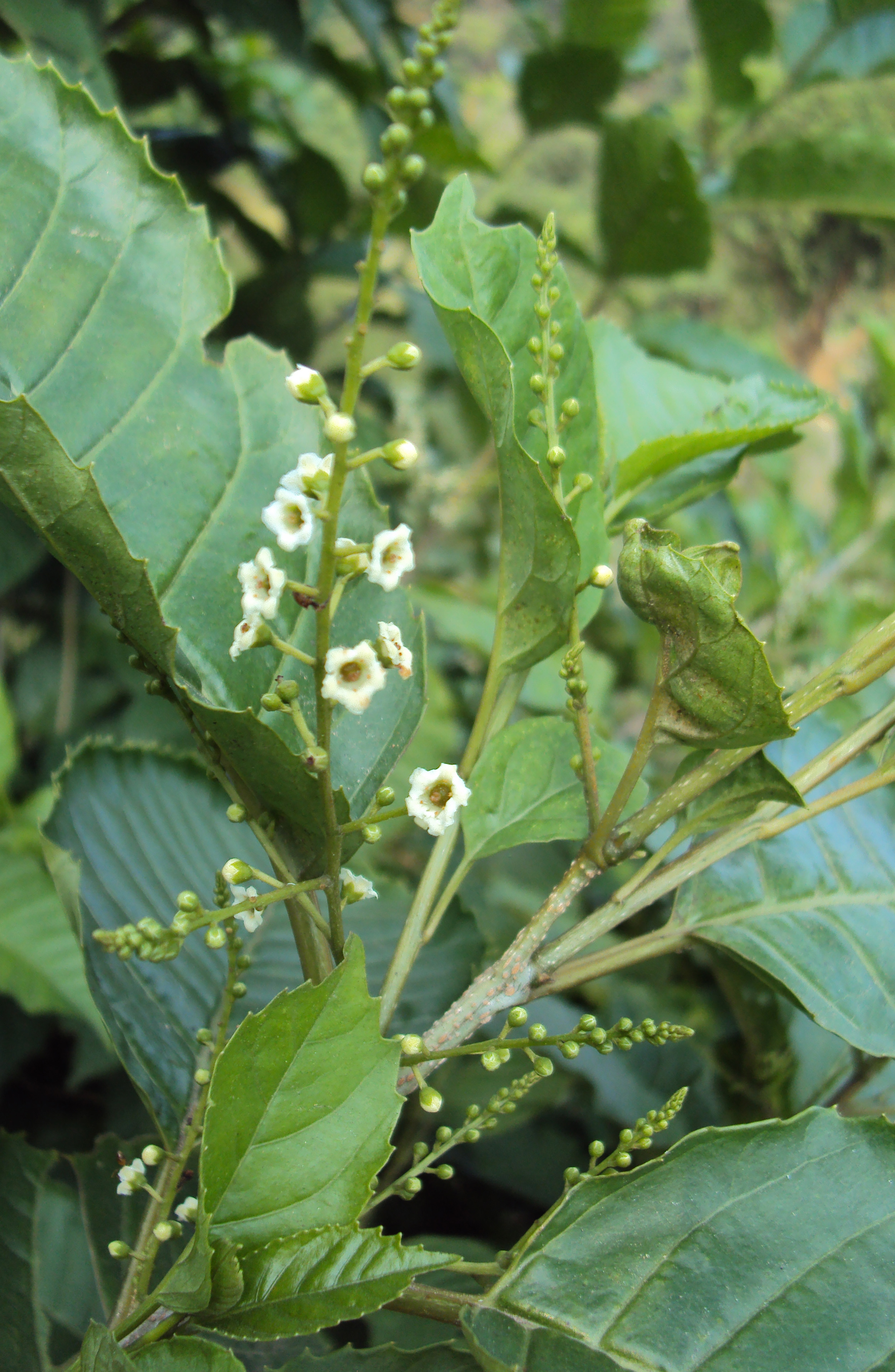 Maesa indica